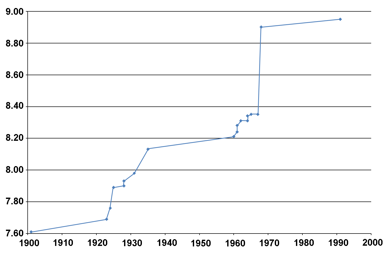 Long Jump Progression